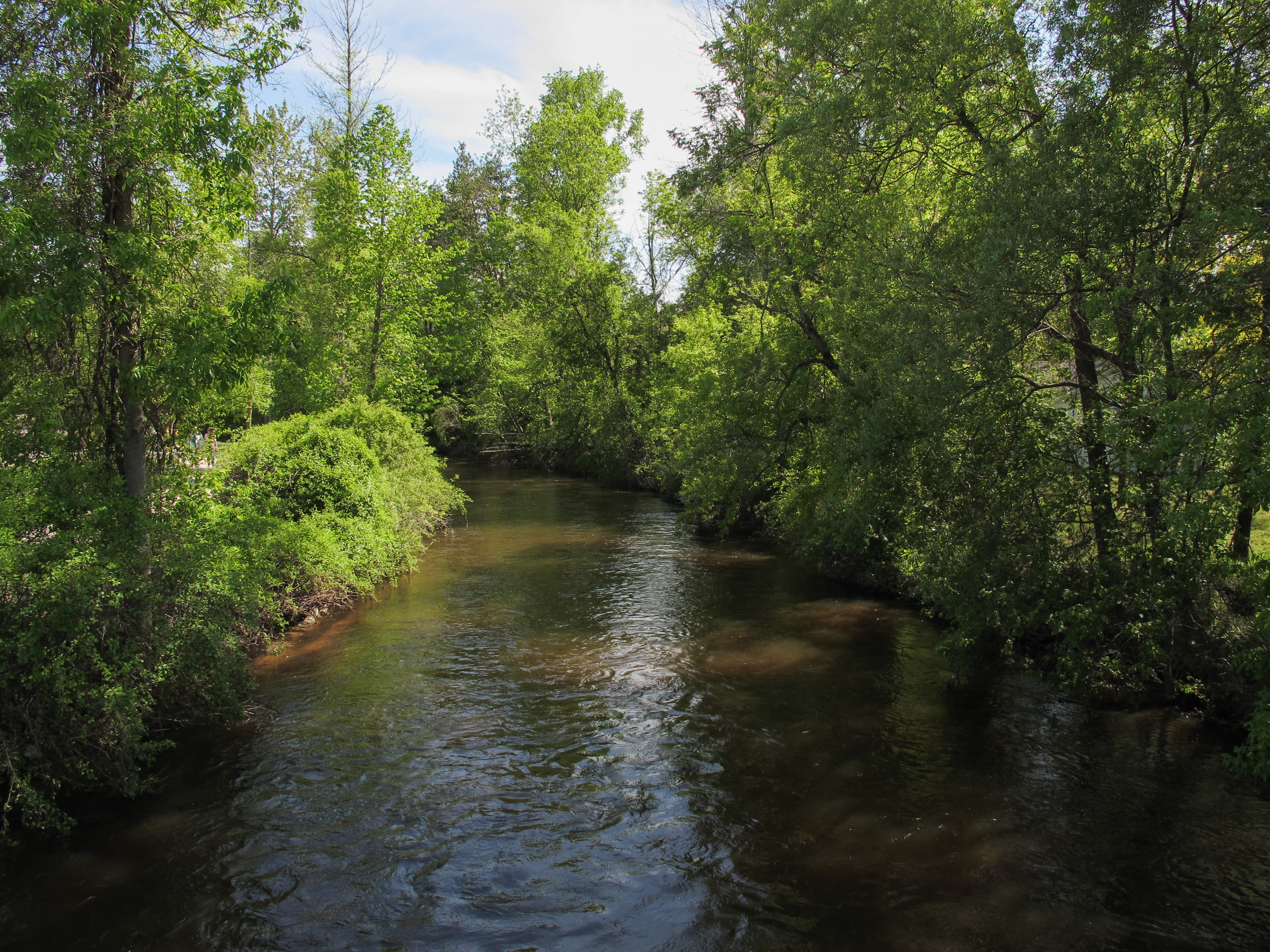 The Cedar River as viewed downstream from the south side of West Cedar Avenue (M-18/M-61) in Gladwin, Michigan.